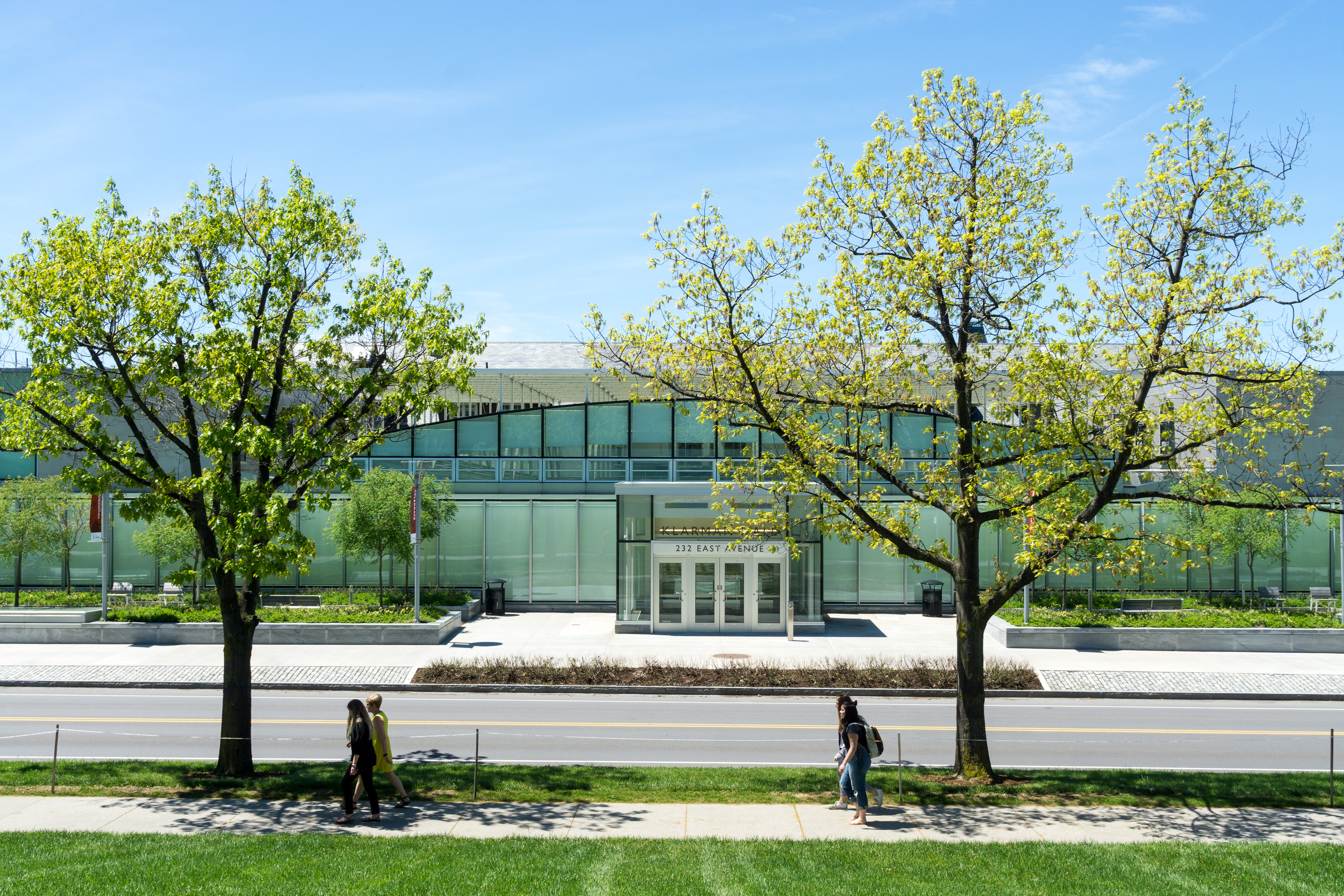 Klarman Hall, East Avenue, Cornell University, Ithaca, NY